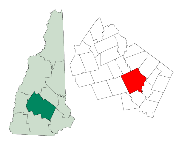 Map of a municipality in Merrimack County, New Hampshire